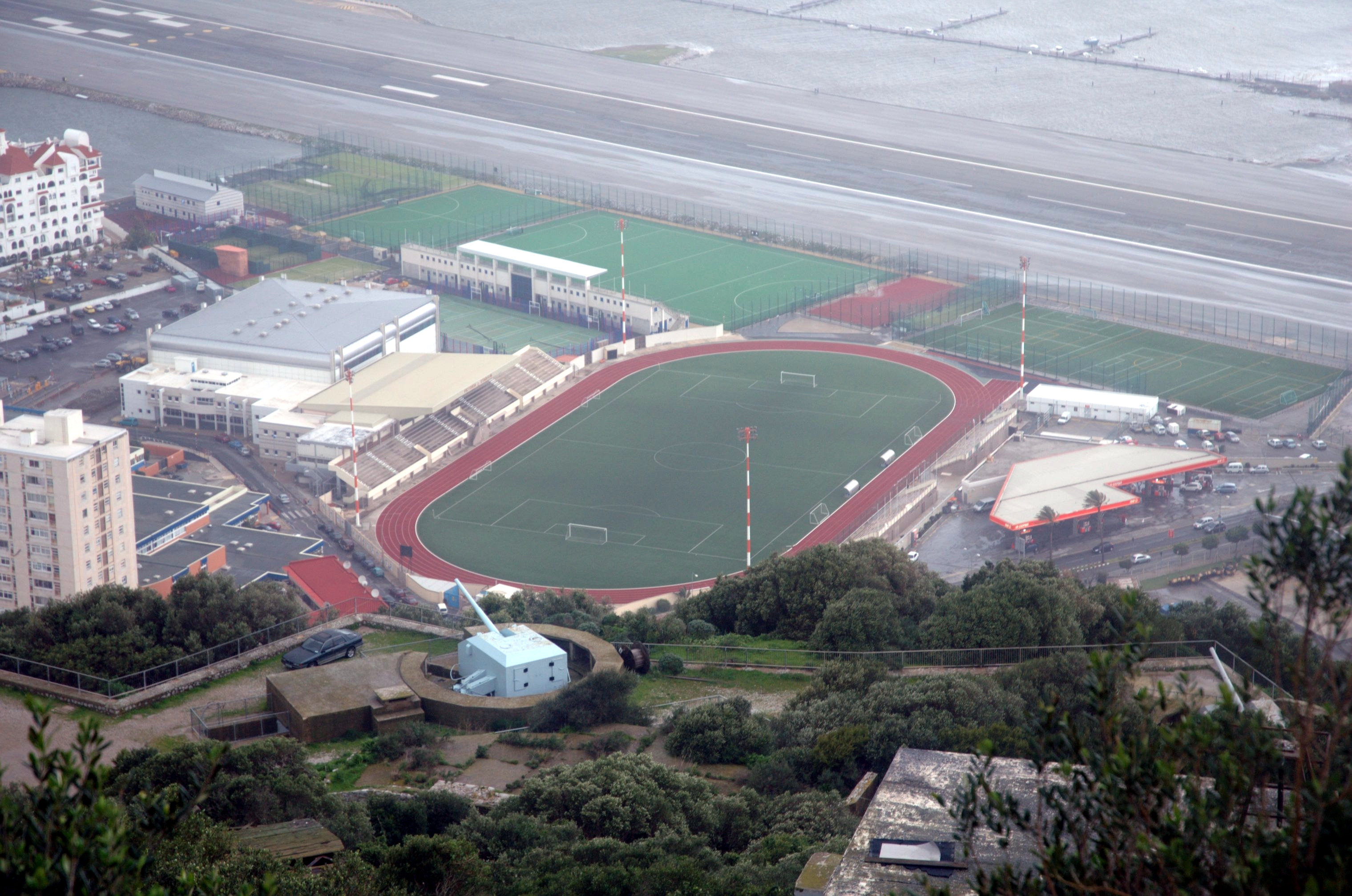 View of the Victoria Stadium and the Bayside Sports Centre from the Rock of Gibraltar. Two 5.25 inch guns of Princess Anne's Battery are visible in the near distance on the hilltop.